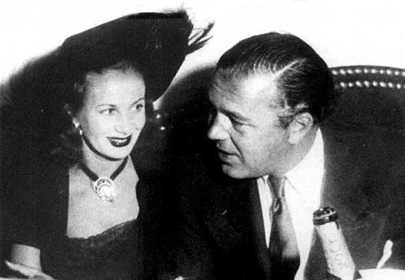 Prince Bertil of Sweden with Mrs. Lillian Craig. They got married in 1976 and Mrs. Craig became Princess Lillian of Sweden.